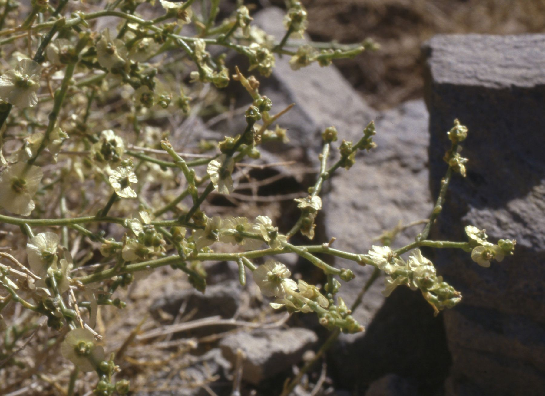 Halothamnus subaphyllus ssp. charifii. Pakistan, Baluchistan, Koh-e-Sultan.